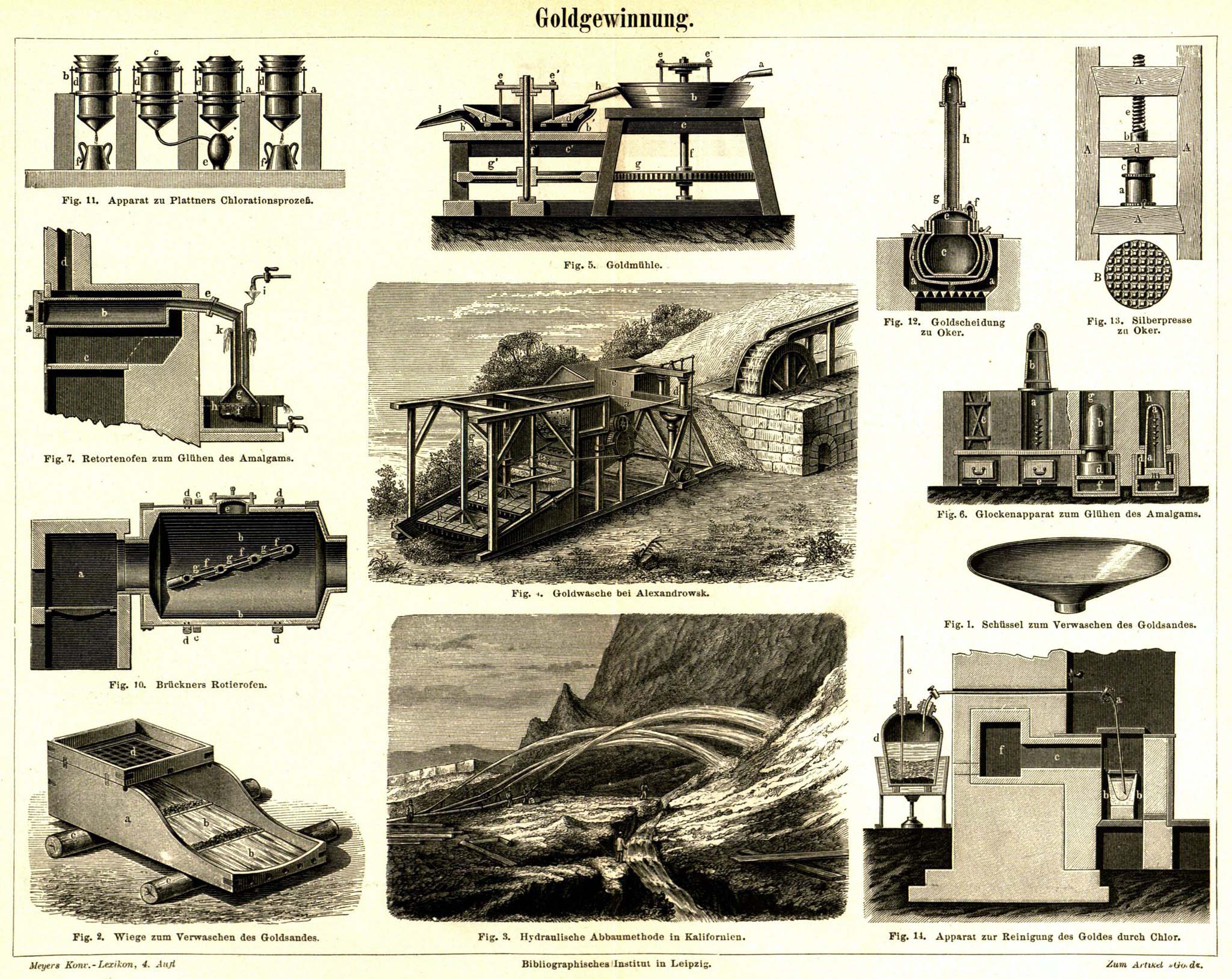 gold extraction